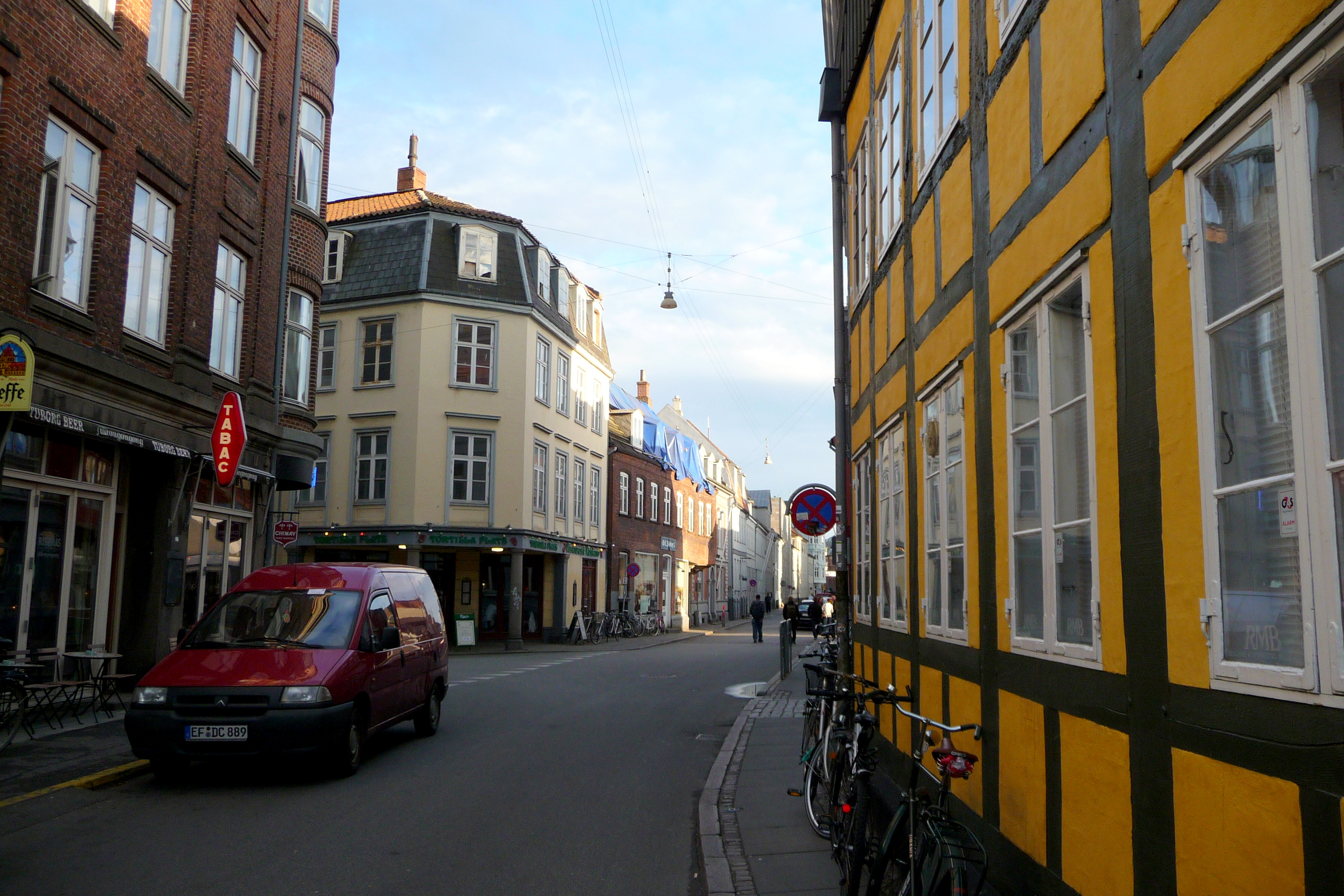 Mejlgade, skumring